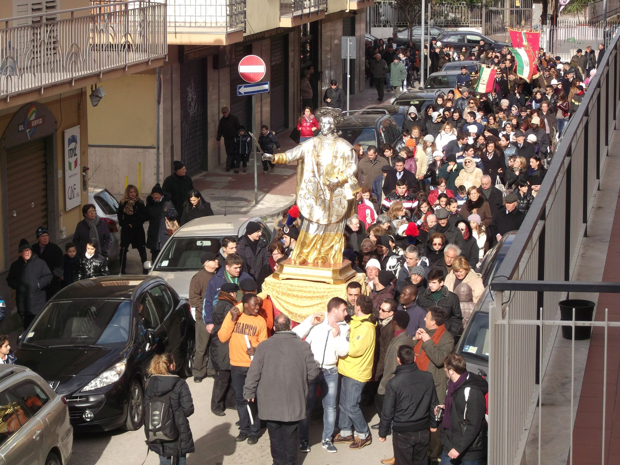 San Felice in processione a Pomigliano d'Arco (2012)